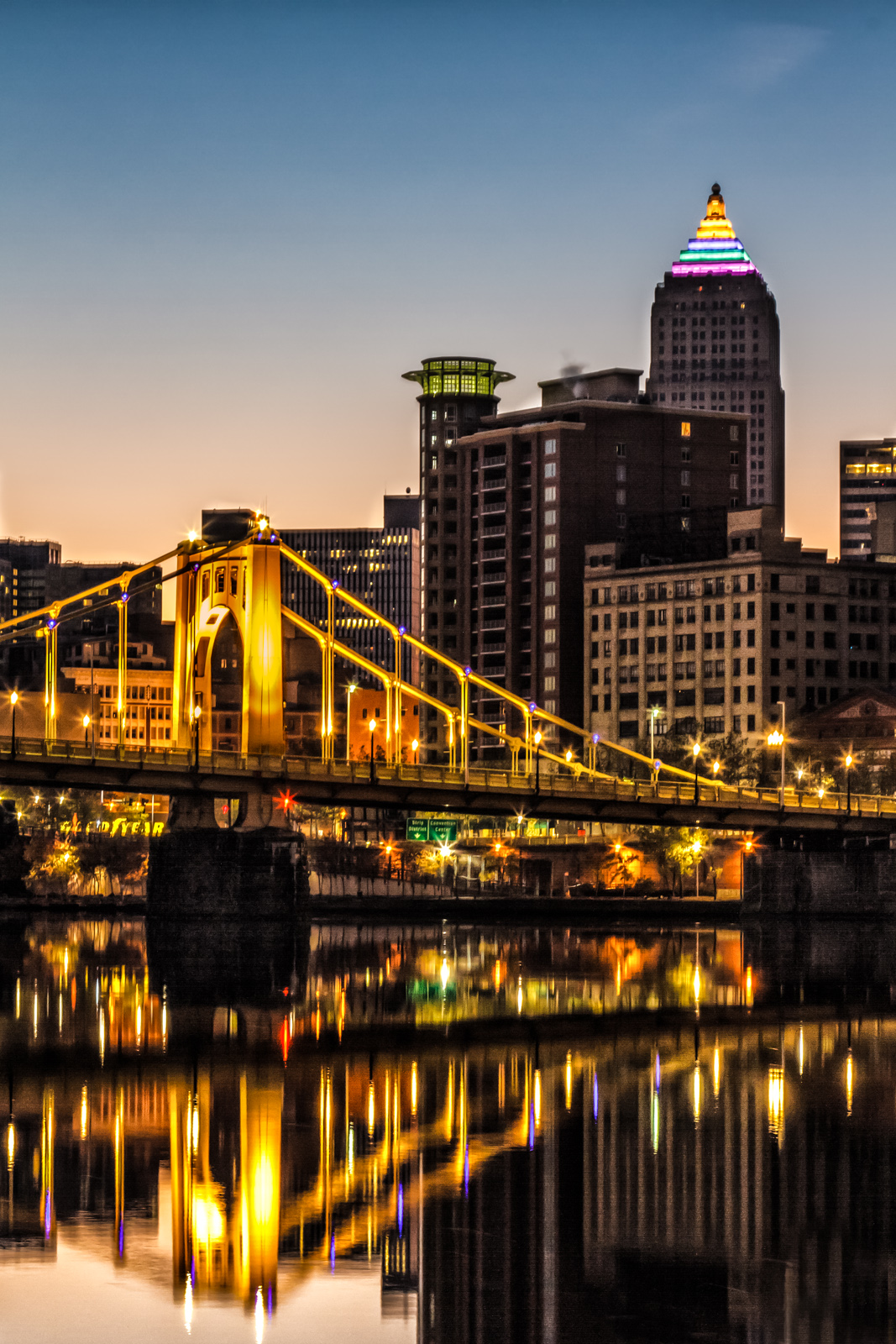 Roberto Clemente Bridge in Pittsburgh, PA.